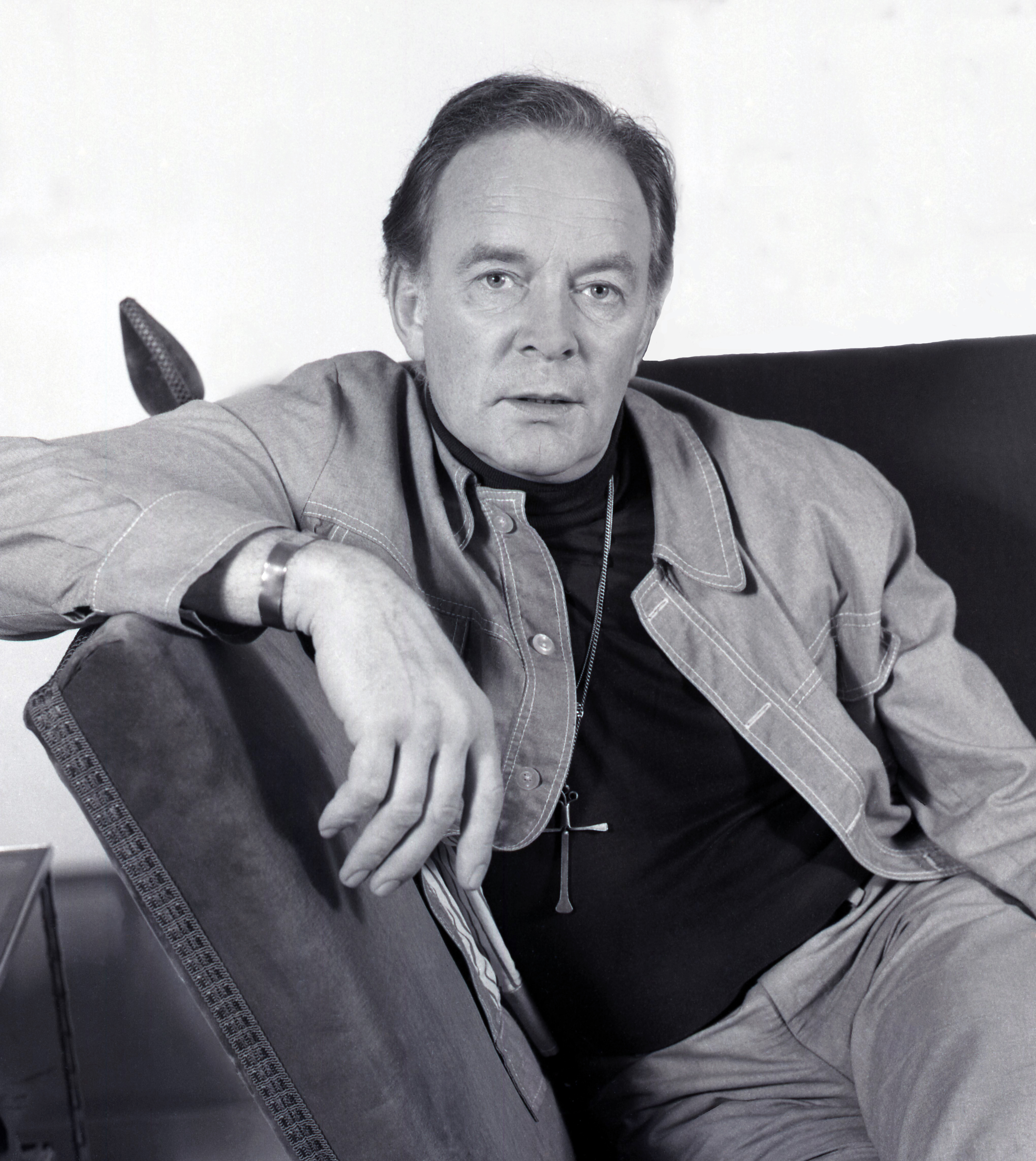 Tony Britton photographer's studio london